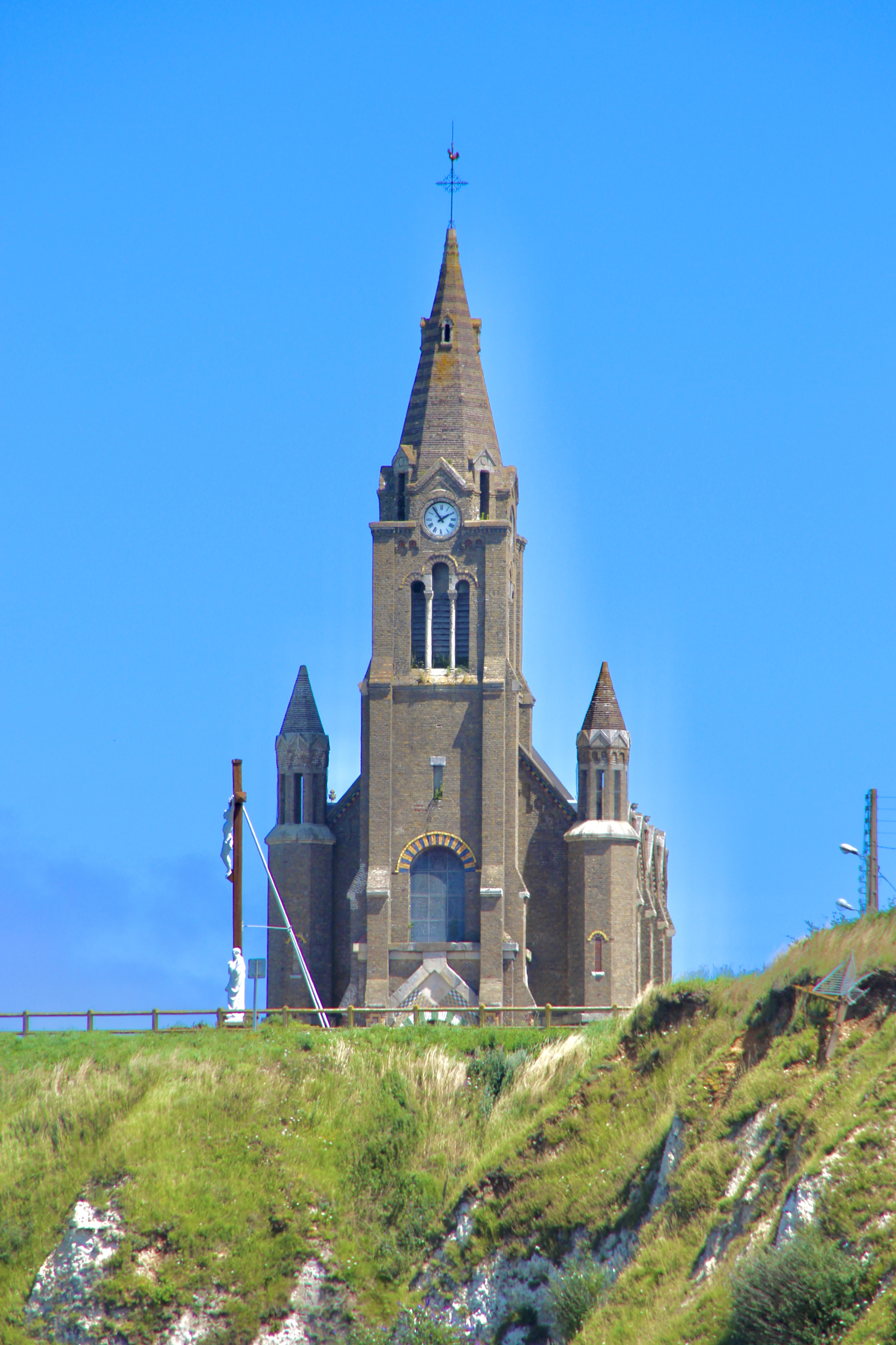 Notre-Dame de Bonsecours church in Dieppe, Seine-Maritime, France. - Google Maps - Google Earth